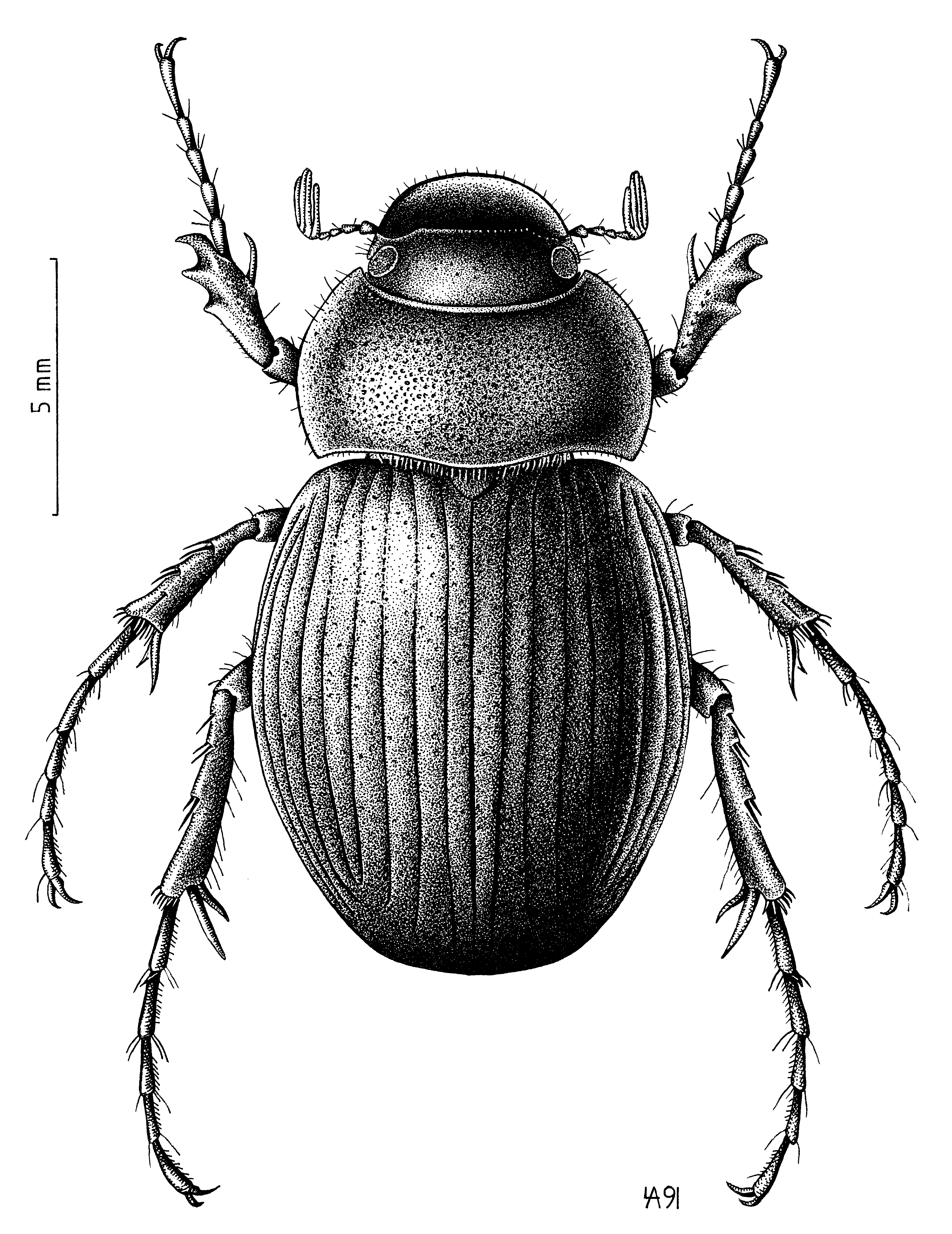 (Coleoptera: Scarabaeidae) Prodontria lewisii illustrated by Lesley Alexander in 1991 for the then-DSIR. She worked with Des Helmore on a work placement as part of her Honours degree in Scientific Illustration at Middlesex University in the UK. Copyright of this ink version owned by DSIR (now Landcare Research).